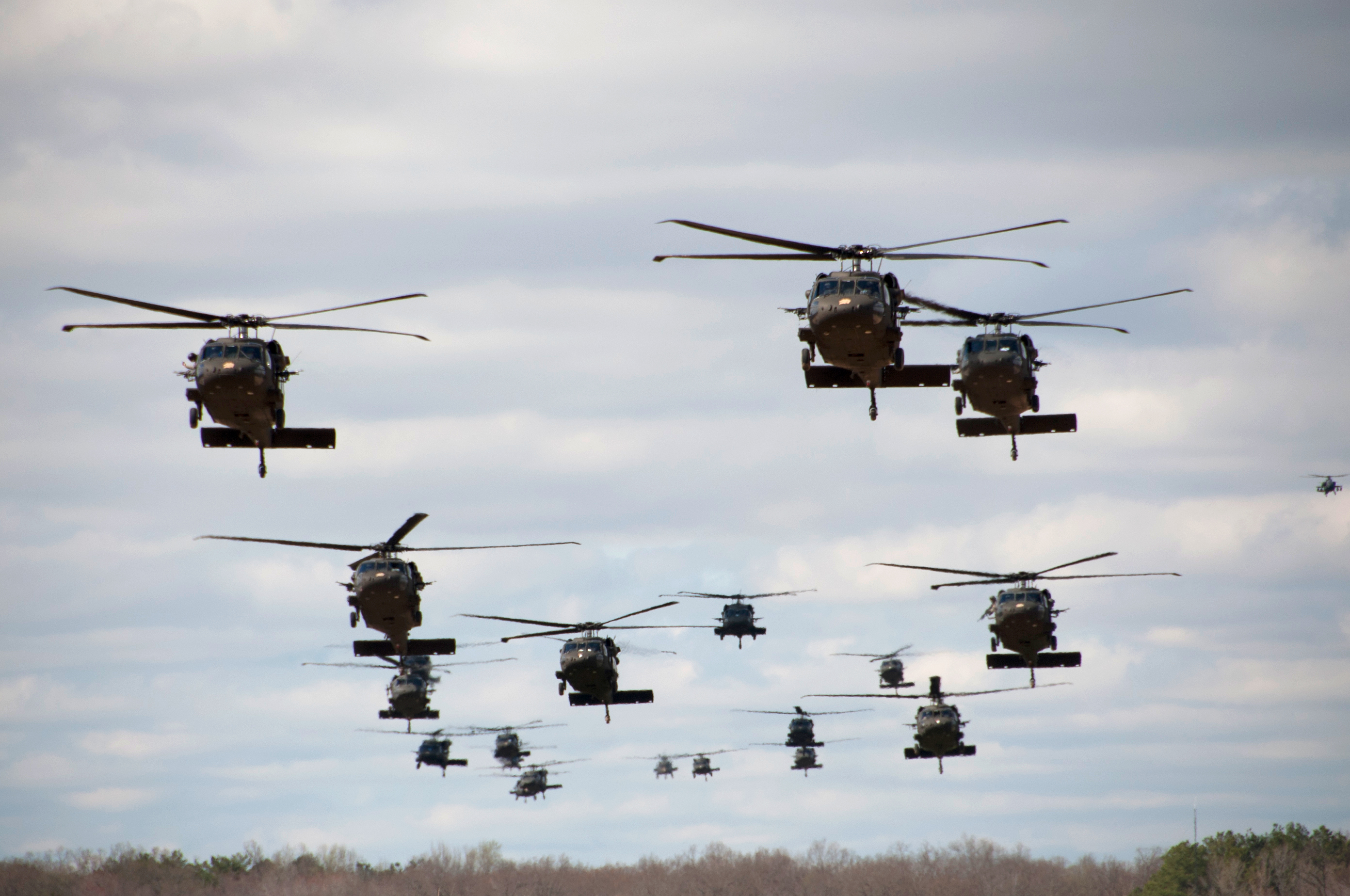 FORT CAMPBELL, Ky. UH 60 Black Hawk helicopters from 5th Battalion, 101st Combat Aviation Brigade "Wings of Destiny" transport Soldiers from the 3rd Battalion, 187th Infantry Regiment, 3rd Brigade Combat Team "Rakkasans" 101st Airborne Division (Air Assault), on to Landing Zone Red Crow during Operation Golden Eagle here April 8, 2014. The four-day exercise was the first brigade-size air assault operation conducted by the 101st Abn. Div. in more than a decade and featured Soldiers from 3rd BCT and 101st CAB moving more than 1,100 Soldiers and sling-loading more than 20 pieces of equipment.